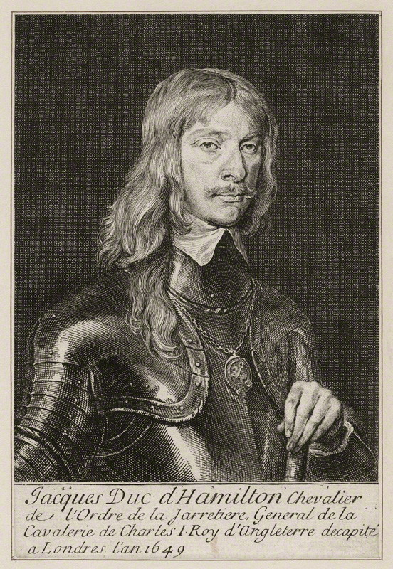 Line engraving of James Hamilton, 1st Duke of Hamilton after Unknown artist